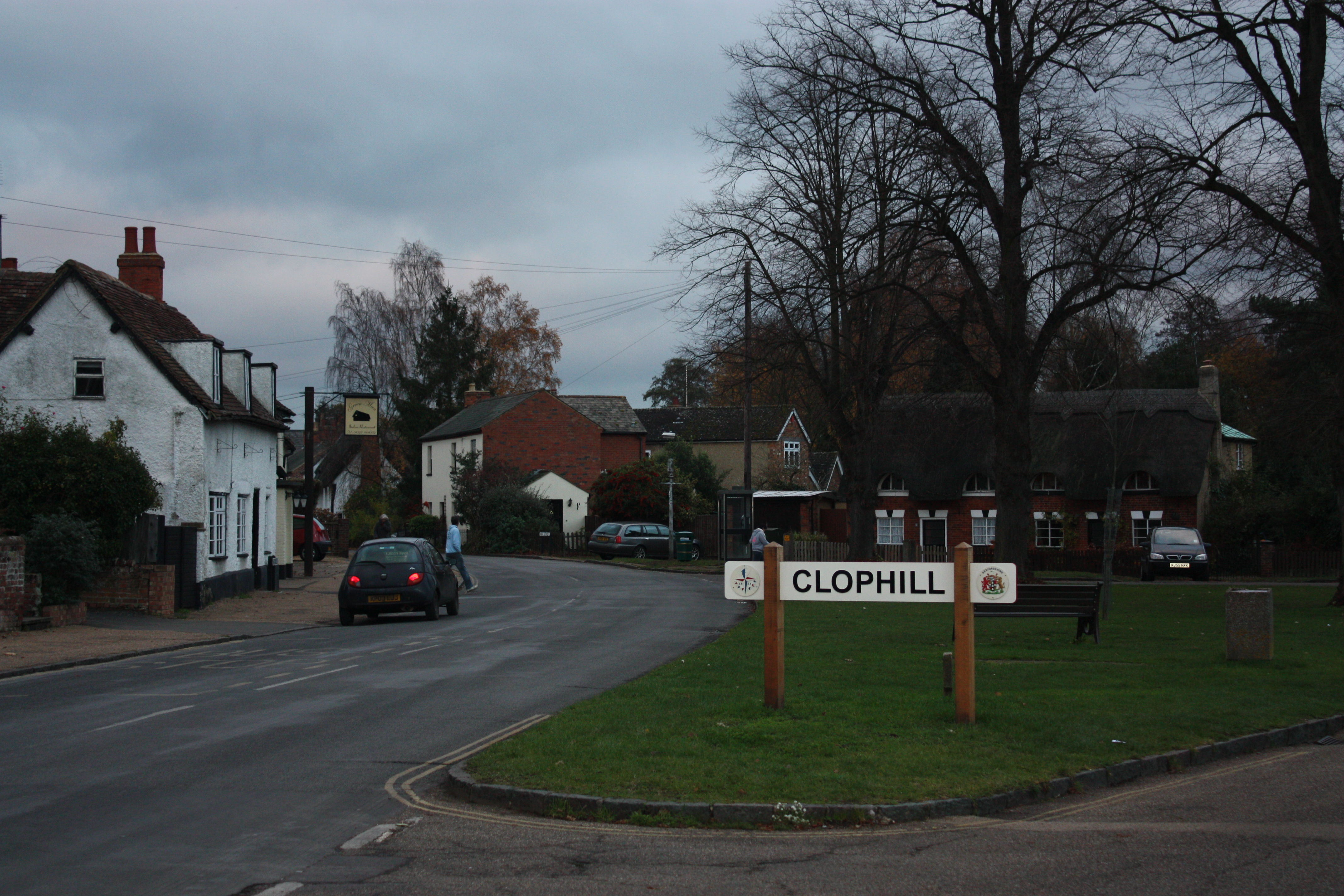 Village sign at Clophill